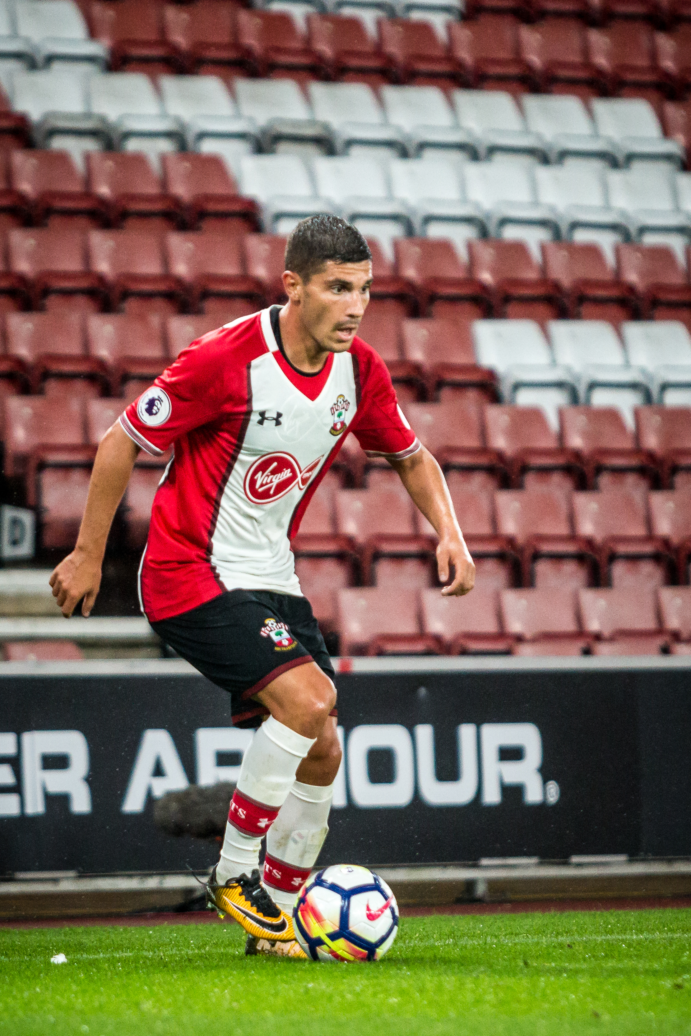 Pre-season friendly Wednesday 2 August 2017 Image by Lewis Commons